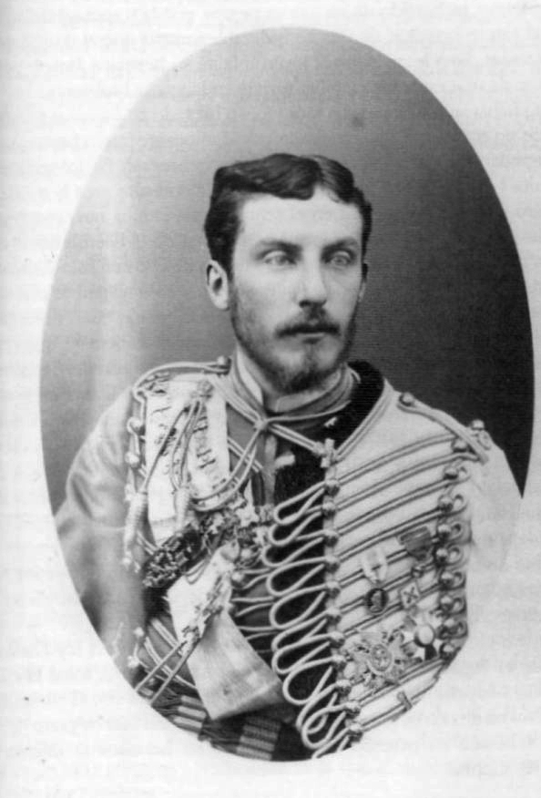 Infante Antonio, Duke of Galliera